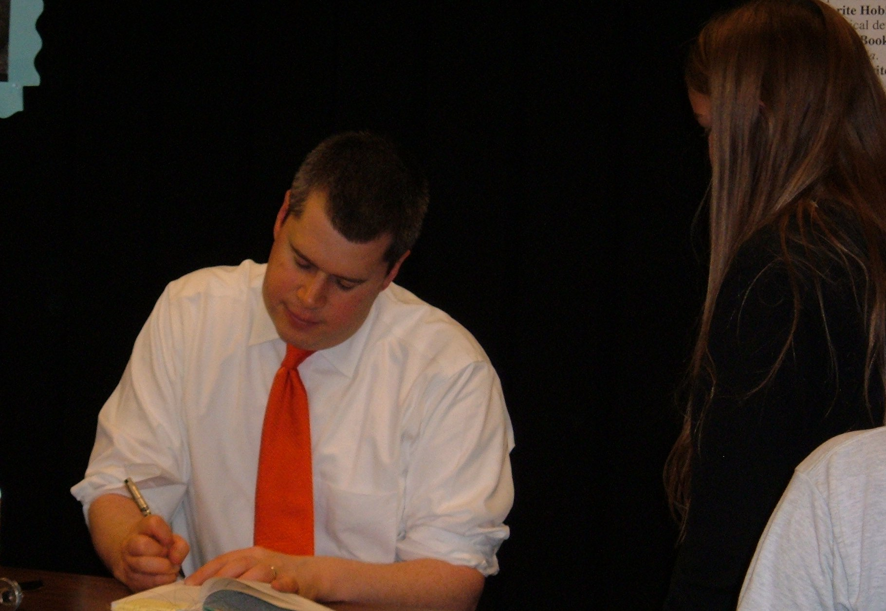 Author Daniel Handler, AKA Lemony Snicket, personally autographing books in the A Series of Unfortunate Events series at an event promoting the books sponsored by the South San Francisco Public Library in South San Francisco, California.